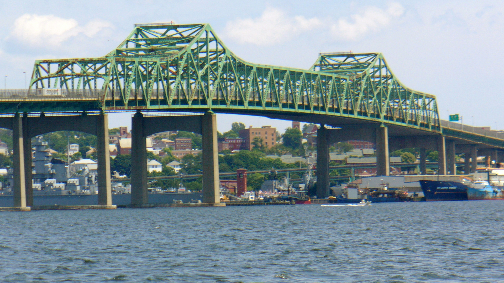 Image of Braga Bridge from Somerset, MA